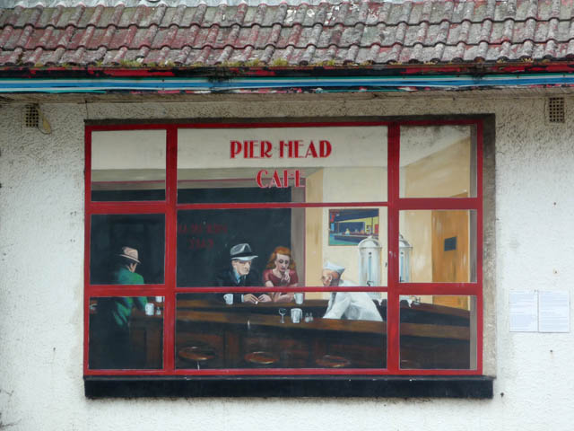 Nighthawks at the Pier Head Cafe. This is the right hand panel on the frontage of the now derelict 1627532 at Swanage. The trompe l'œil mural references Edward Hopper painting Nighthawks, which can be seen on the wall behind.